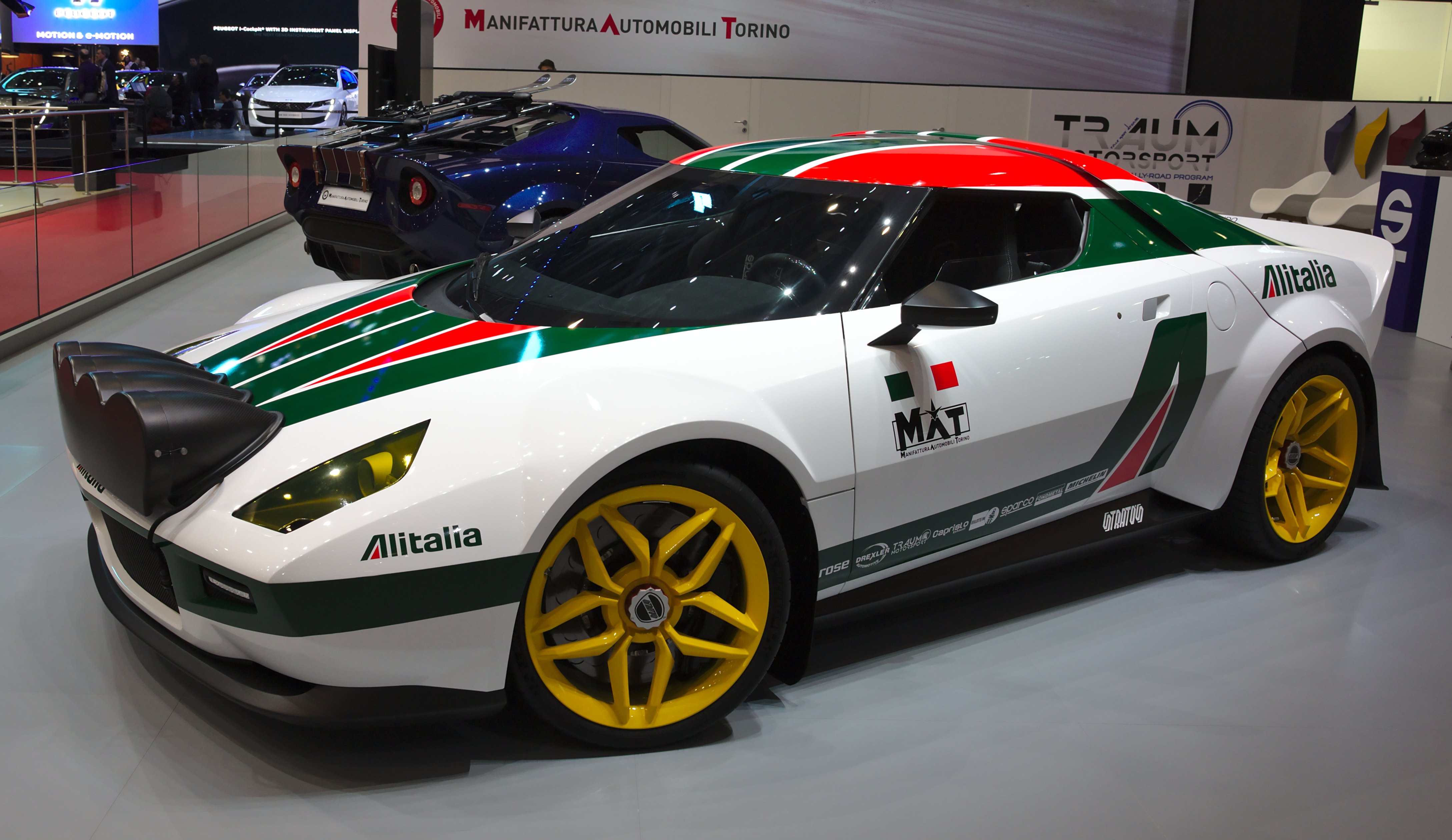 New Stratos at Geneva Motor Show 2019